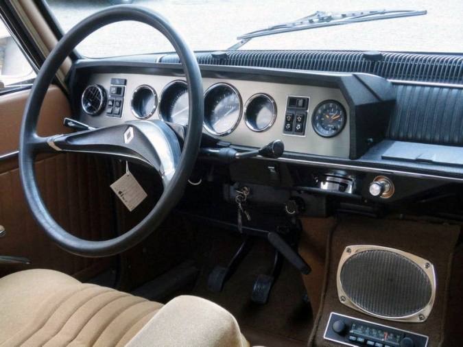 Dashboard of a 1975 Renault R16 TS